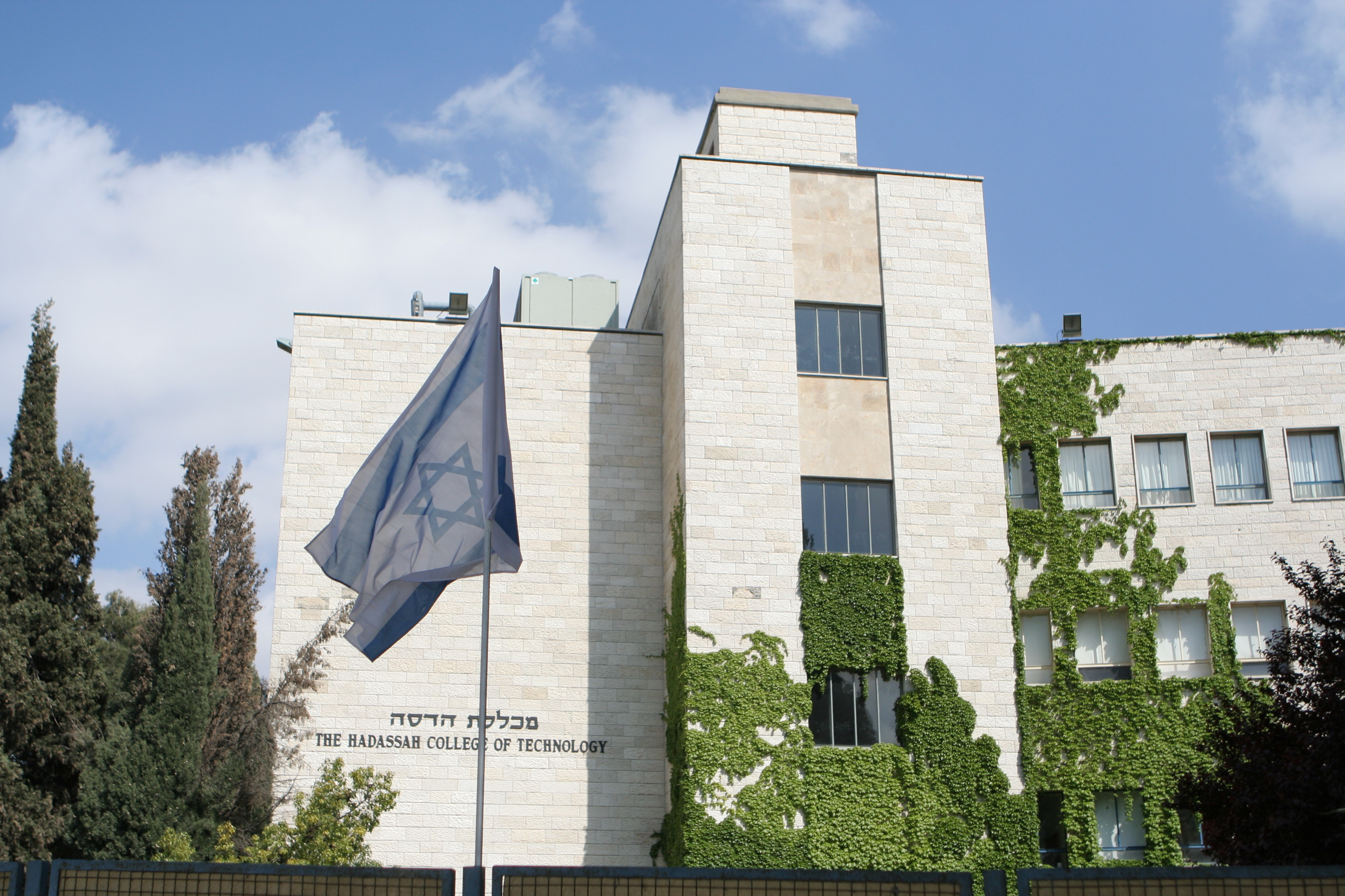 The Hadassah Academic College in Jerusalem, Israel.